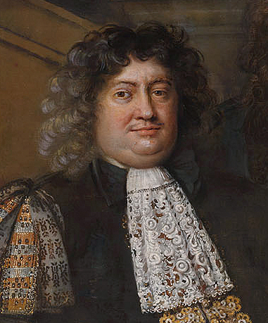 Adriaen Rosa, alderman and bailiff of the city of The Hague, the Netherlands.